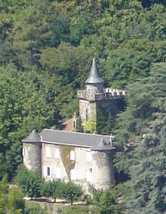 Cambiaire's castle from the south